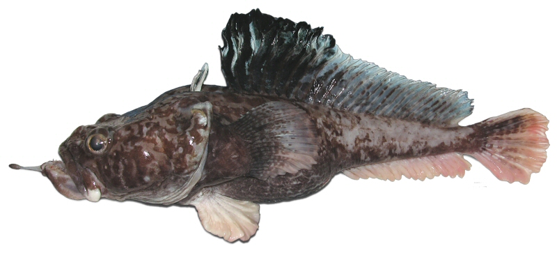 hopbeard plunderfish, Pogonophryne neyelovi Shandikov et Eakin, 2013